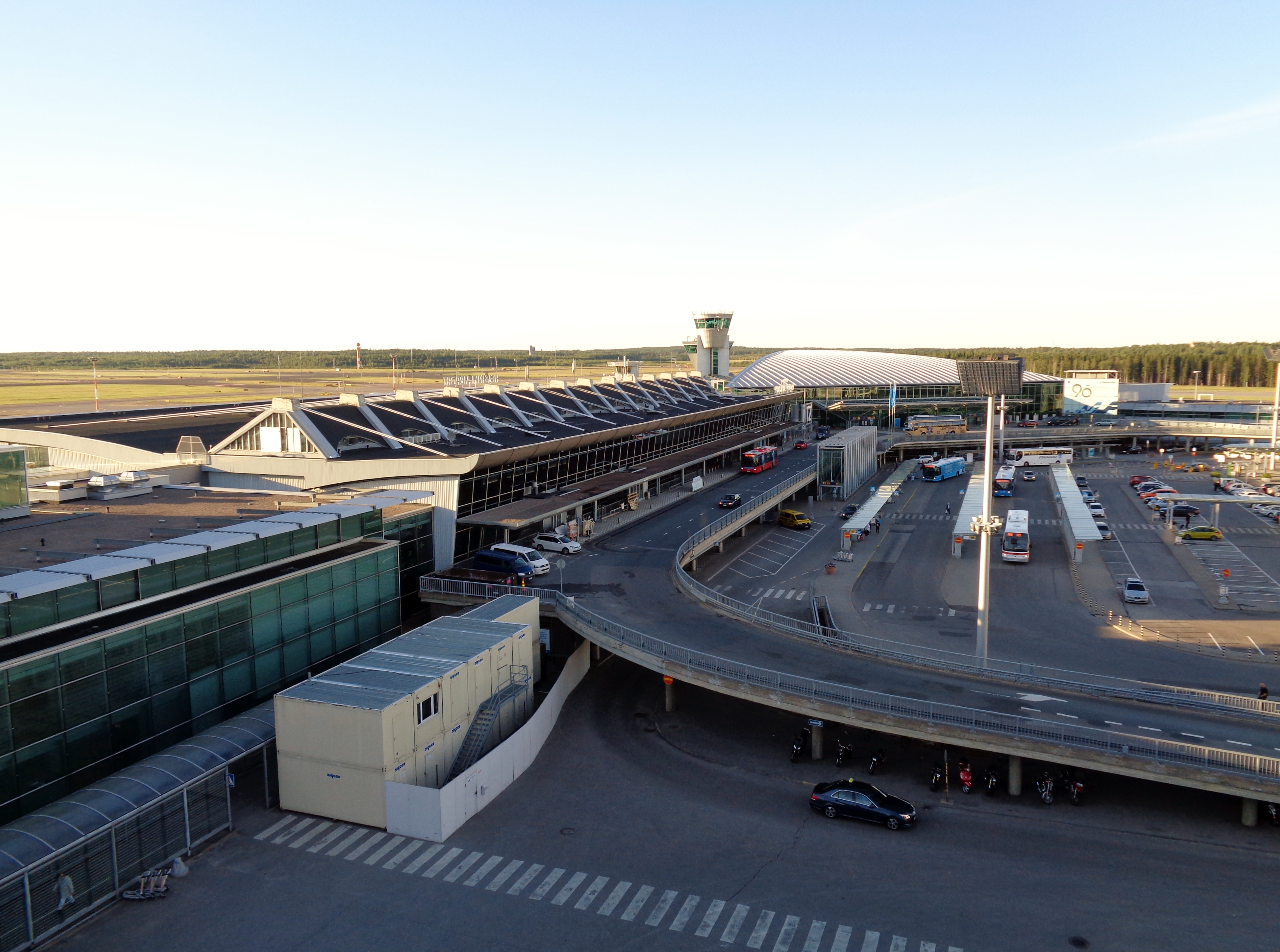 Helsinki Airport Terminal 2 seen from the scenic terrace.